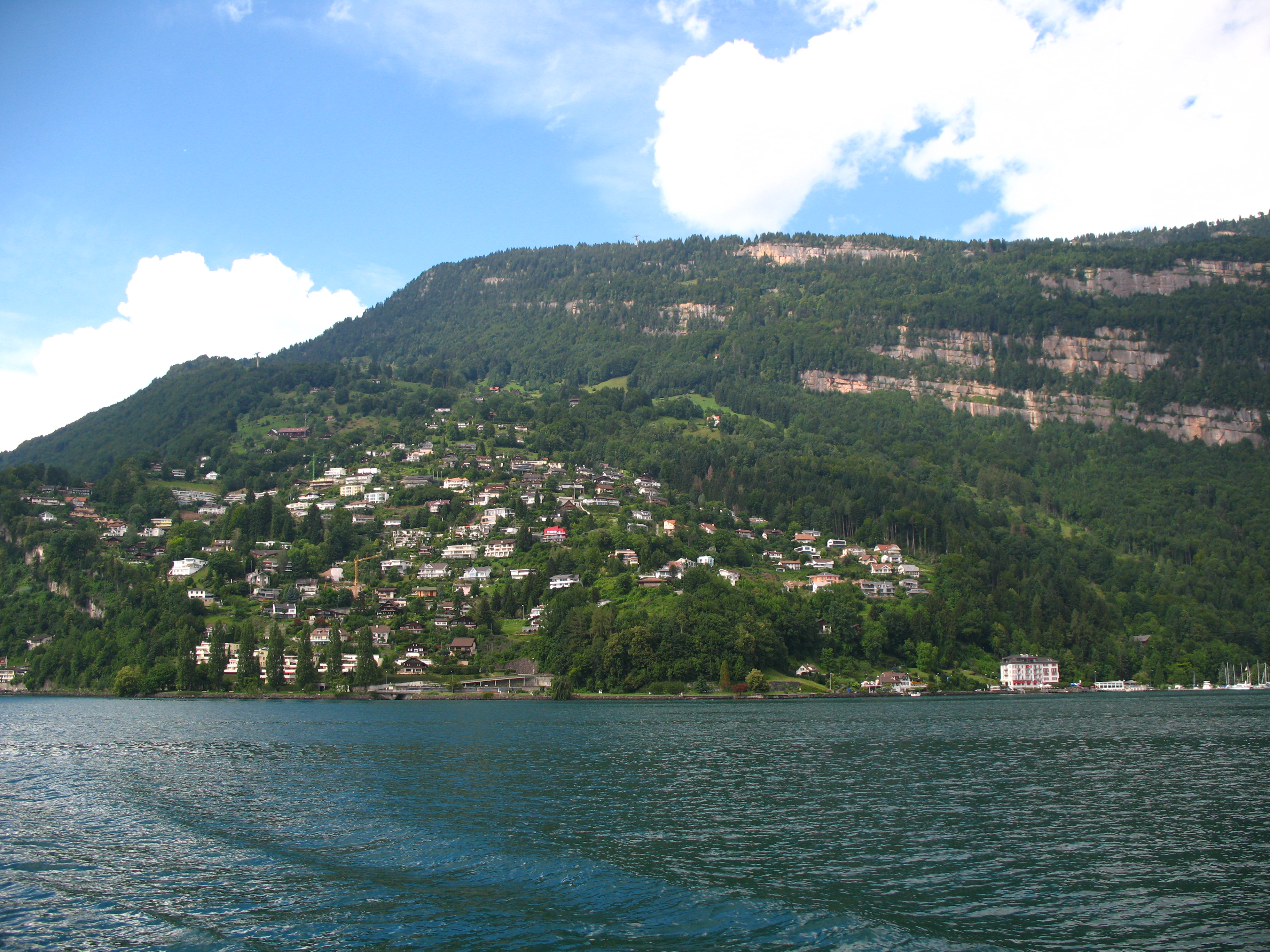 Lake Lucerne, Weggis, Switzerland